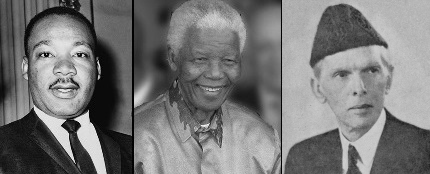 ezMandela in Johannesburg, Gauteng, on 13 May 2008.